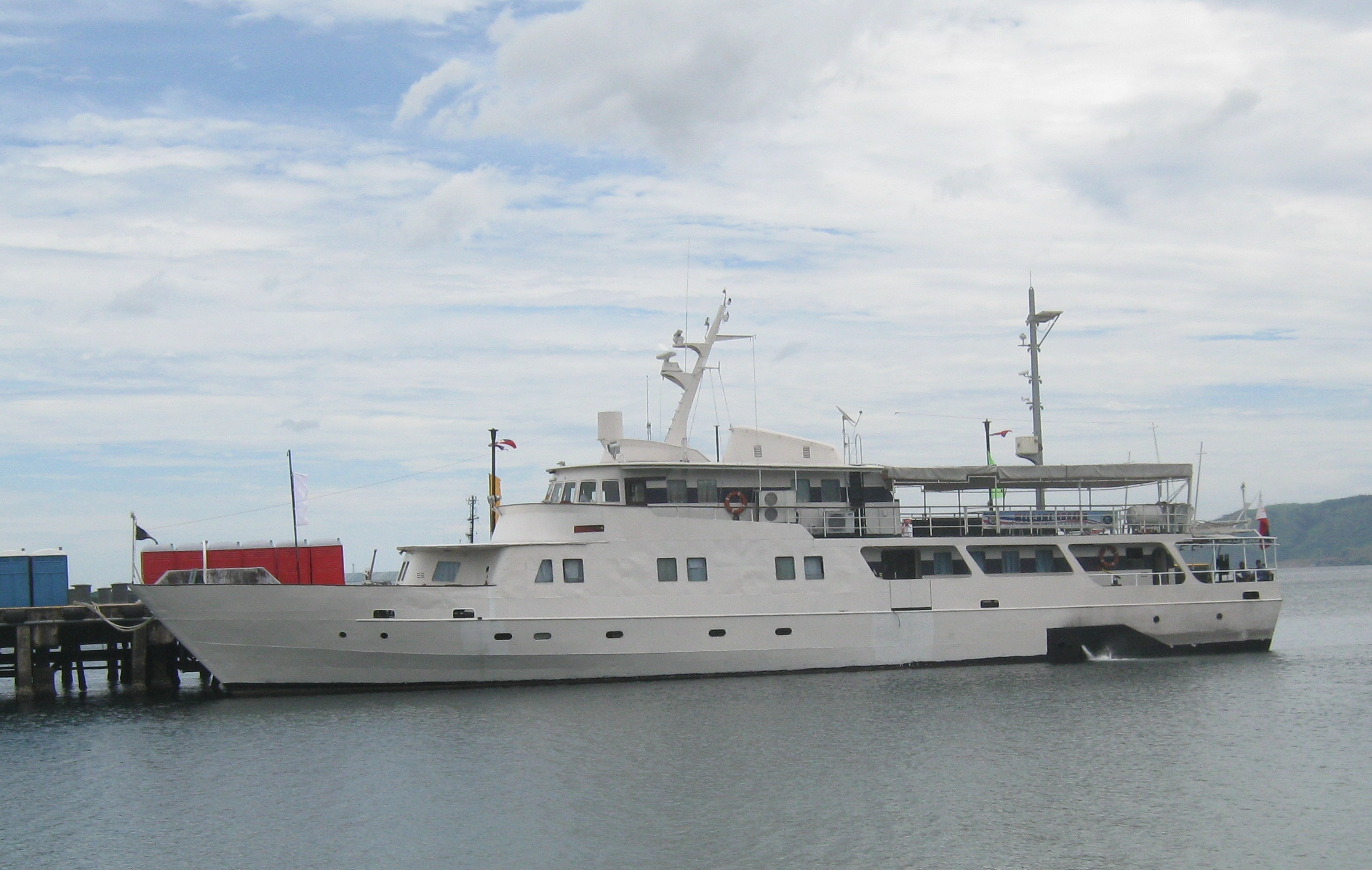 Taken at Subic Bay Freeport Zone two days before the arrival of BRP Ramon Alcaraz (PF-16).